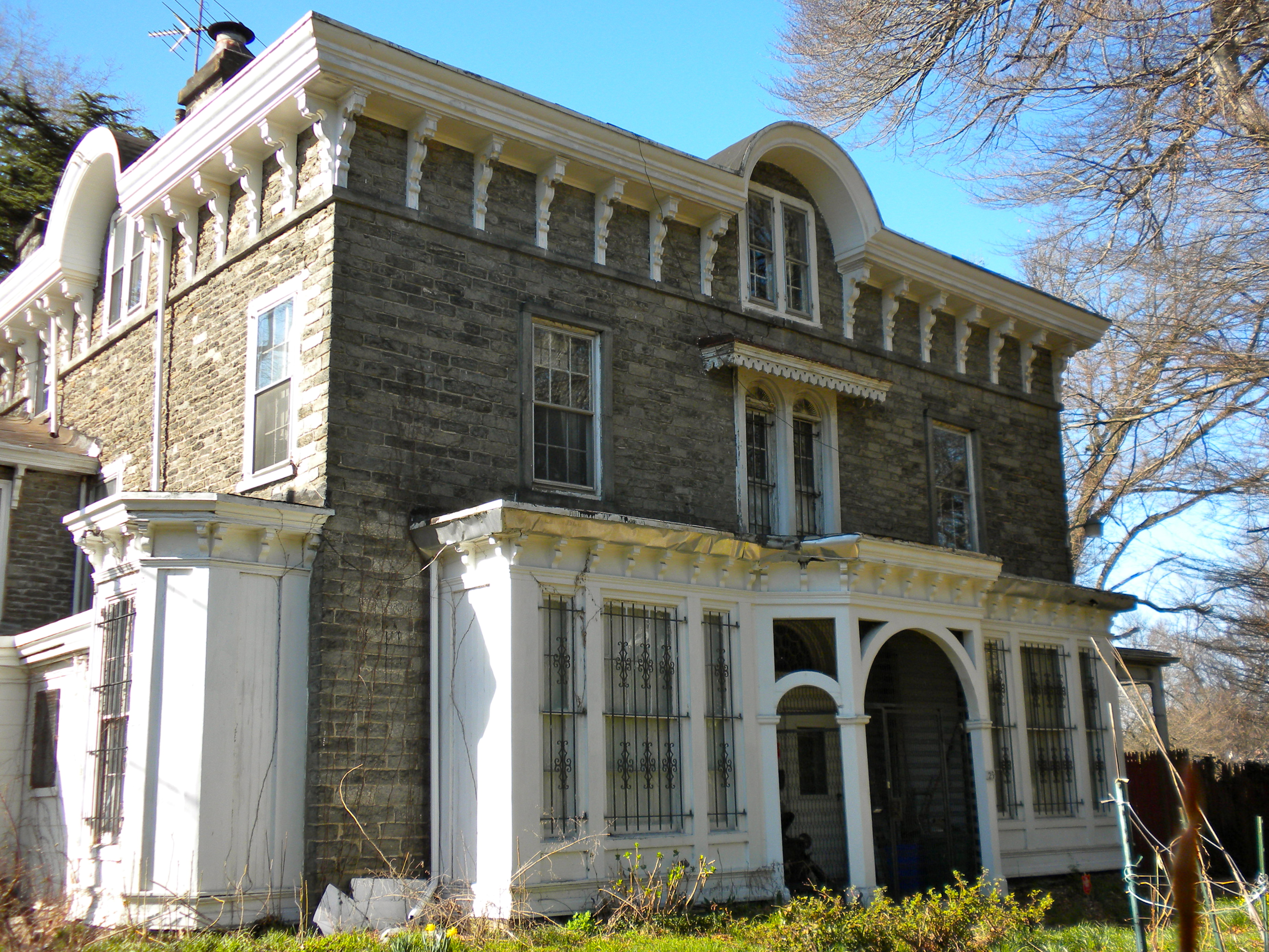 Ivy Lodge on NRHP since February 1, 1972. At 29 East Penn Street in Germantown neighborhood, Philadelphia.